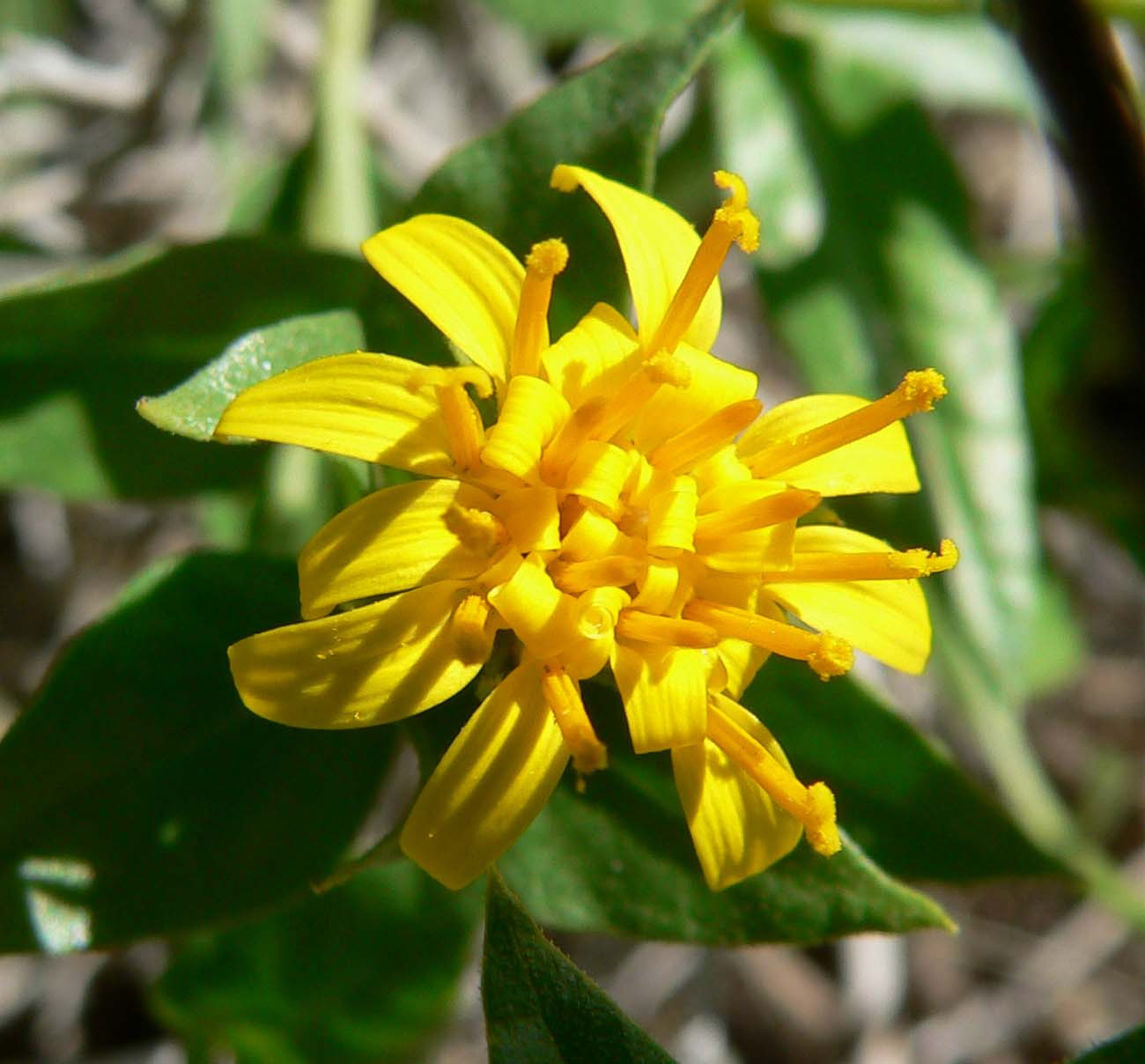 Photo of Trixis californica in Palm Canyon, California